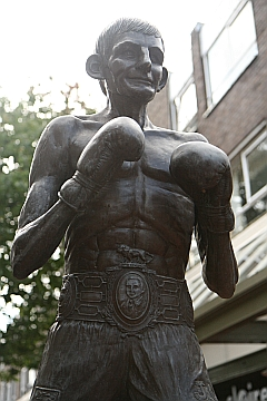 Sculpture of Merthyr Tydfil boxer Johnny Owen in St Tydfil's Shopping Centre, Merthyr Tydfil. The Sculptor was James Robert Done. Unveiled in November 2002.